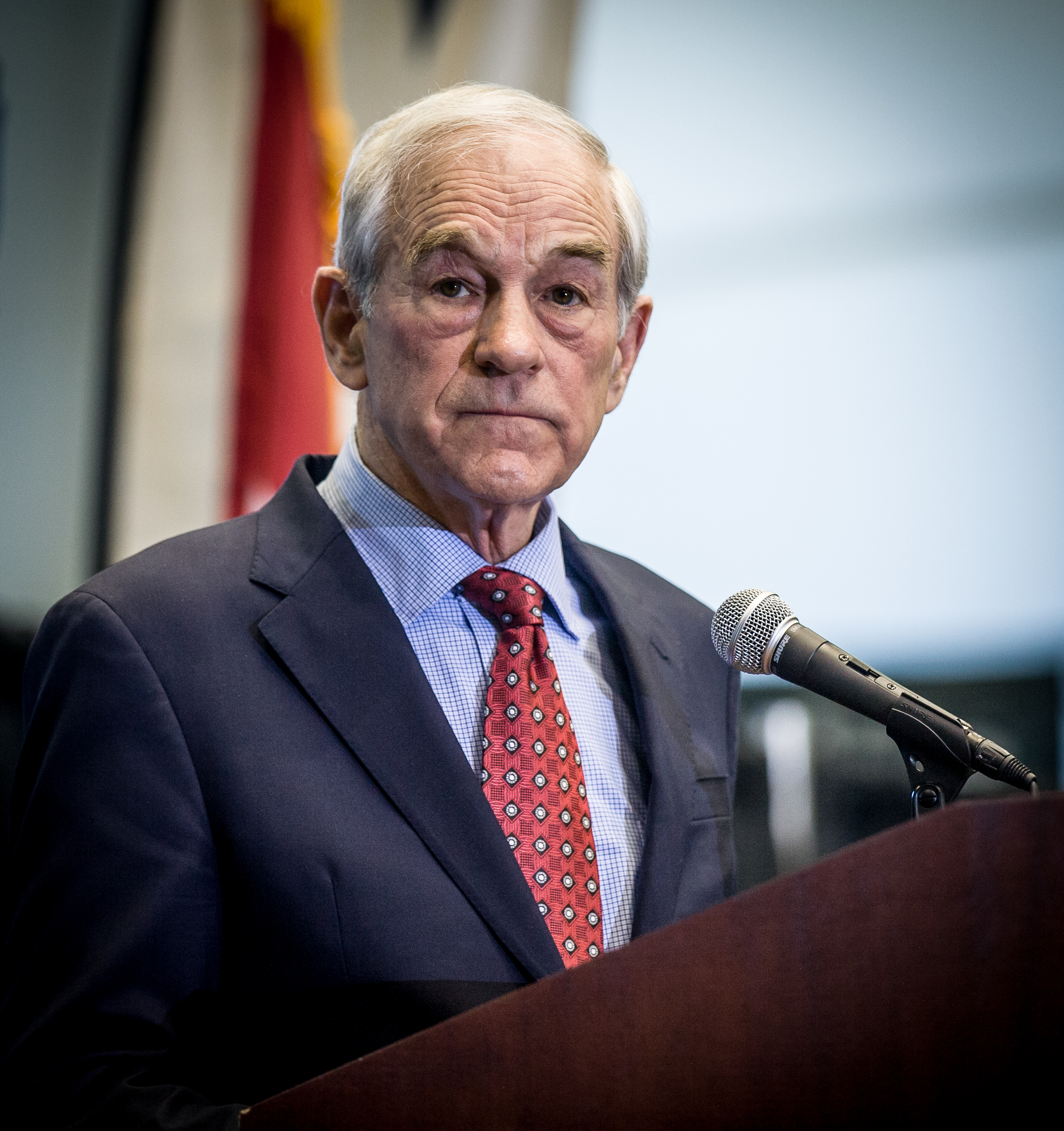 Ron Paul speaking at a rally Lindenwood University in St. Charles, Missouri during his 2012 presidential campaign.